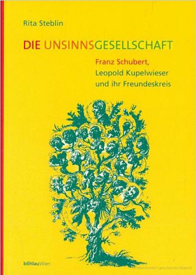 Steblin's Nonsense 1998